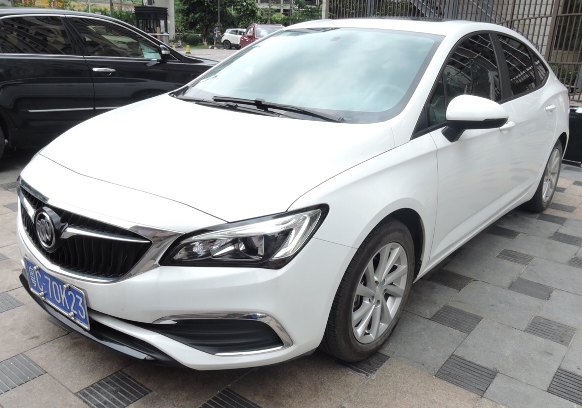 A Buick Verano sedan, taken in Zhuhai, Guangdong province, China. 中文（中国大陆）: 一辆别克威朗，摄于中国广东省珠海市。